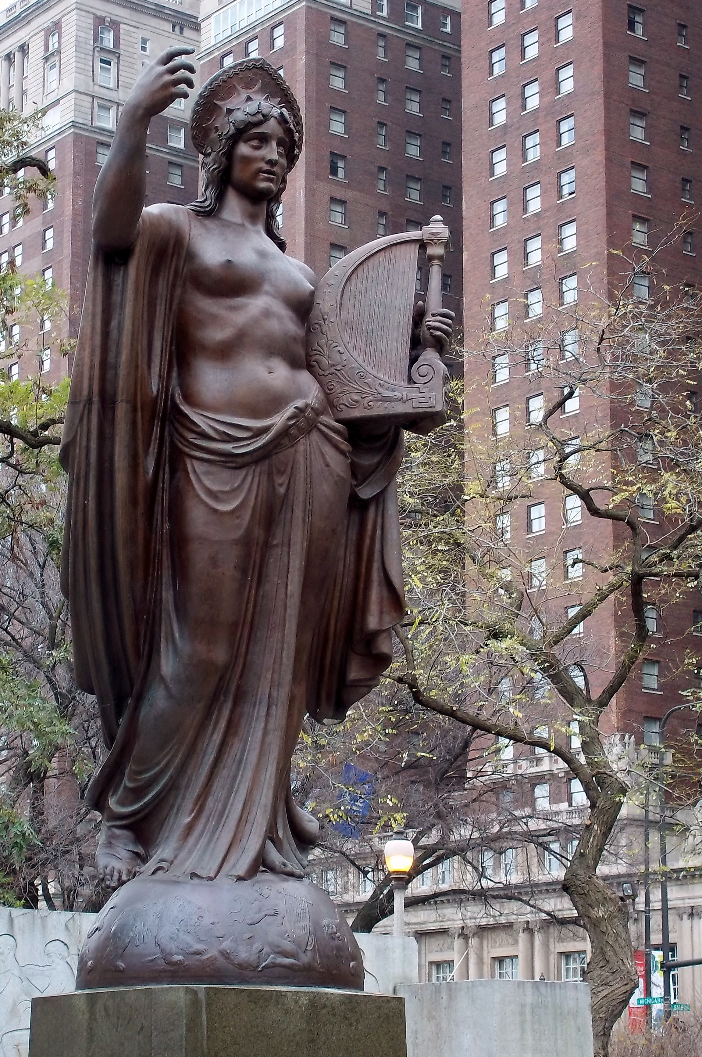 "Spirit of Music" Theodore Thomas Memorial. Sculptor: Albin Polasek. Erected: 1923. Grant Park, Chicago